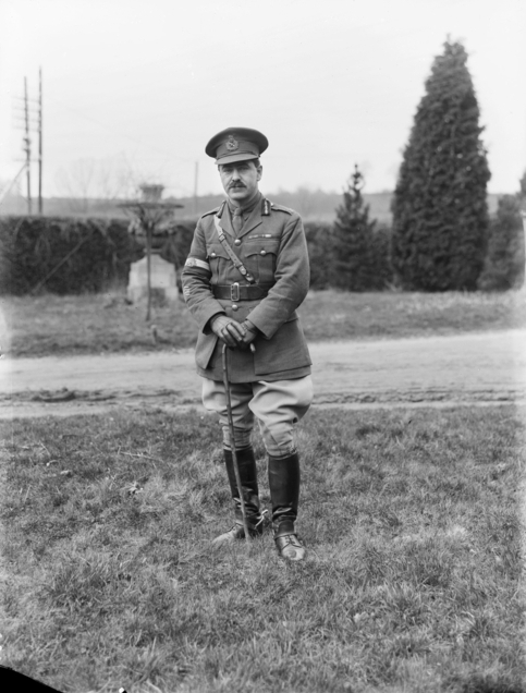 An outdoors portrait of Brigadier General T Blamey CMG DSO, of Australian Corps Headquarters. March 1919. Belgium: Wallonie, Hainaut, Ham-sur-Heure